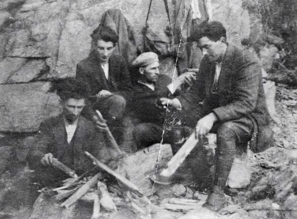 During the Irish Civil War IRA volunteers cook breakfast, Old Parish area, Waterford, Ireland c1922